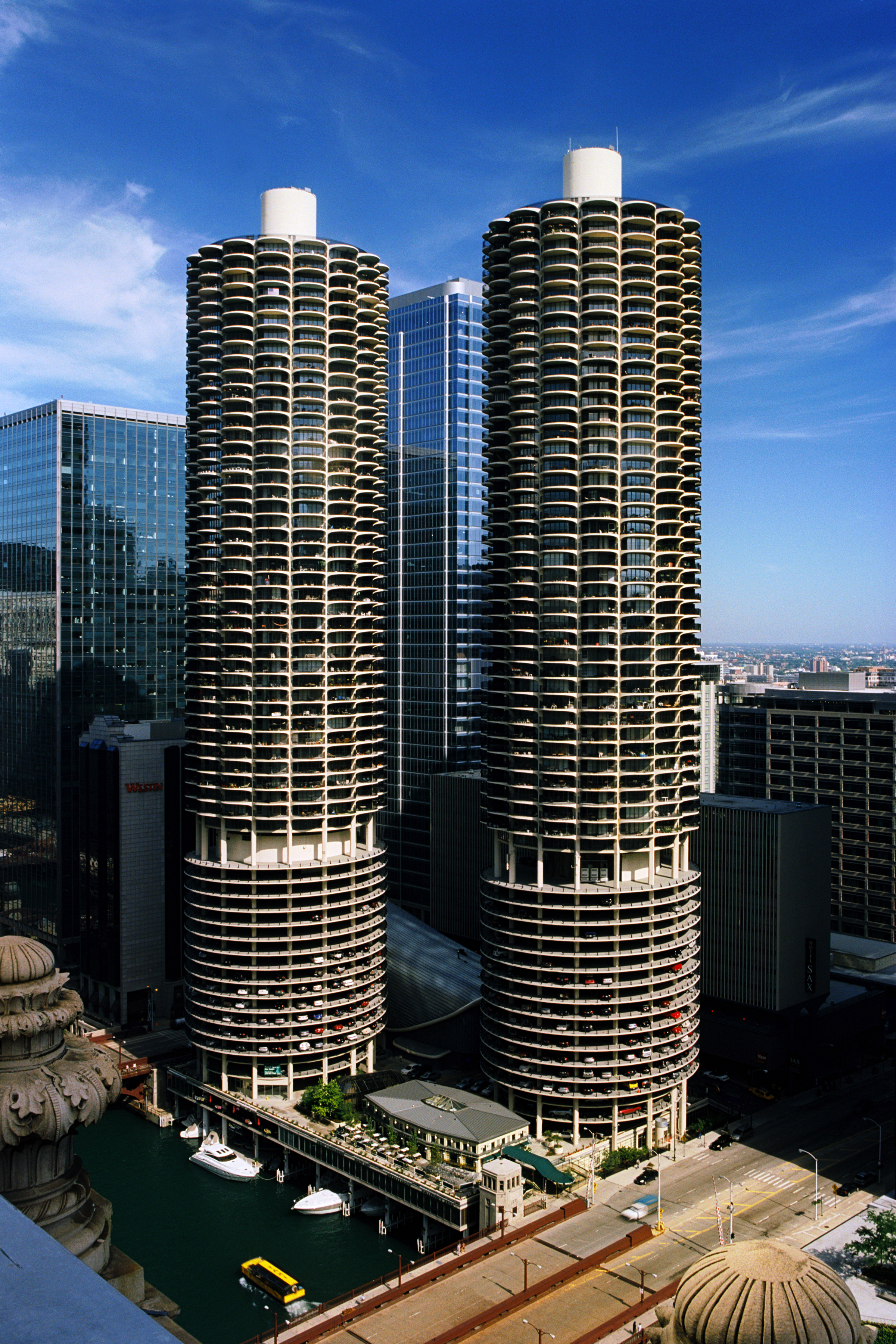 Marina City from roof of 35 East Wacker Drive. State Street Bridge at lower right.